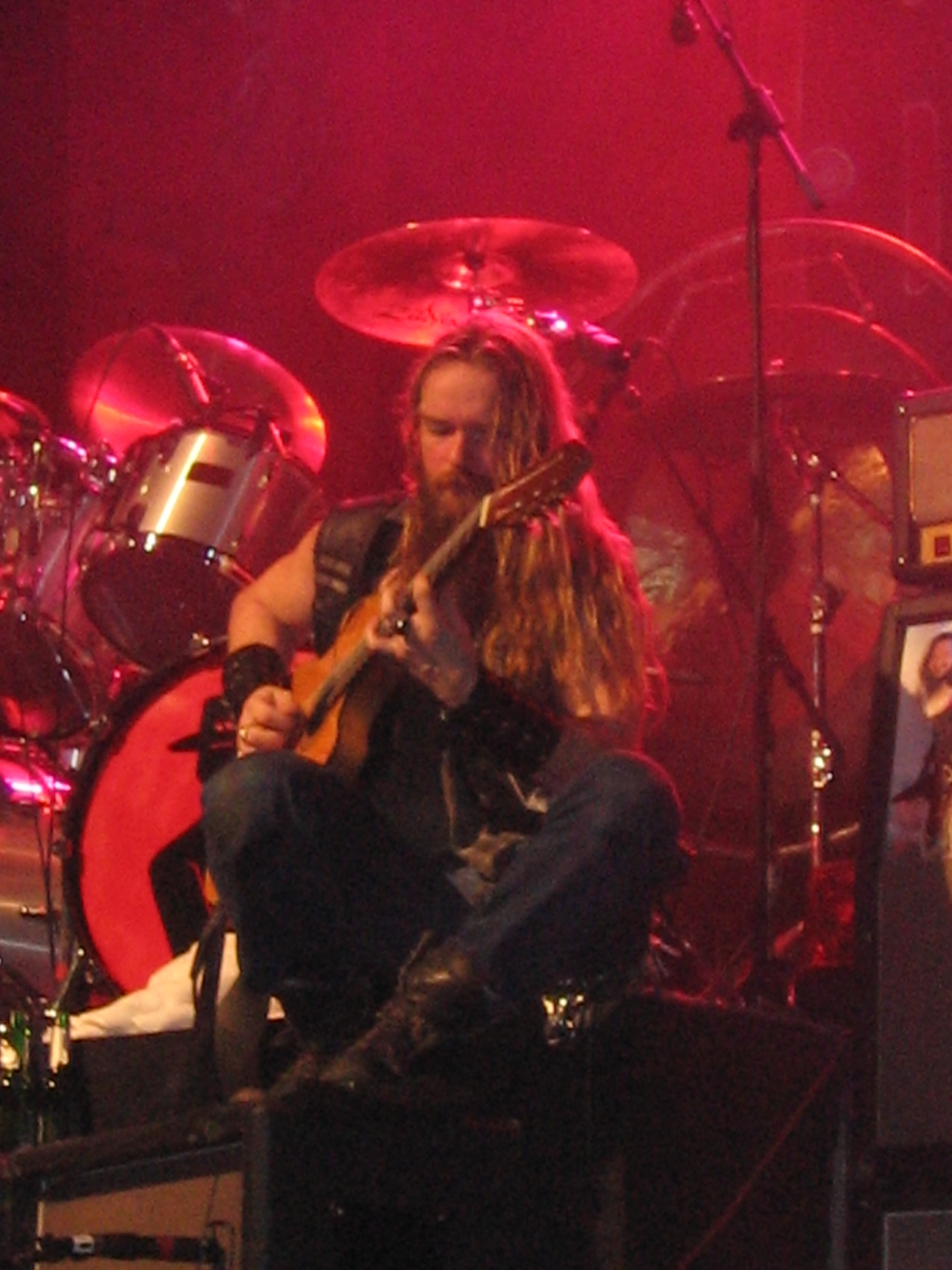 Zakk Wylde live (Recorded at The Electric Factory in Philadelphia, PA)